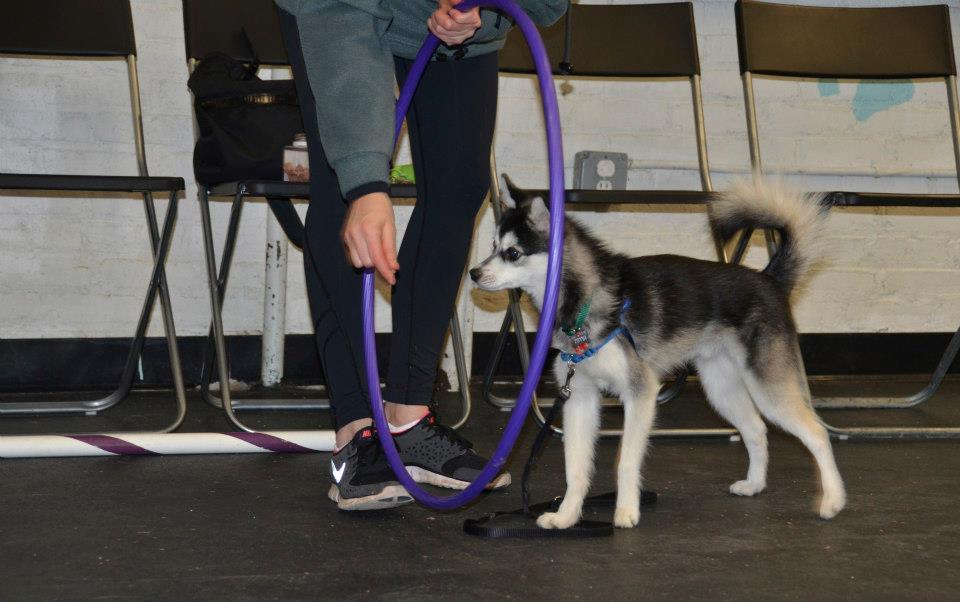 Pipping the Alaskan Klee Kai's first lesson with the hoop